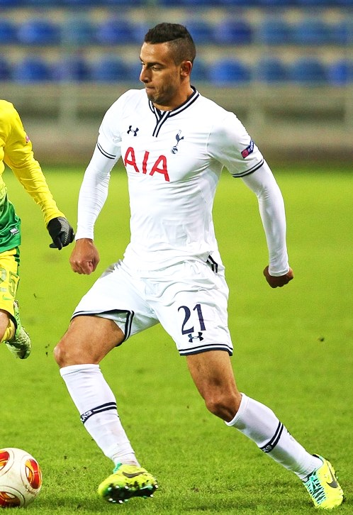 Nacer Chadli2013